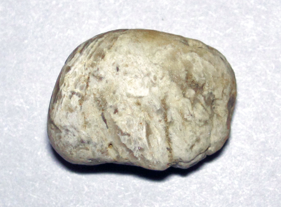 Paleopebble from the Mississippian of Ohio, USA. This paleopebble is derived from fine-grained sandstones in the upper Cuyahoga Formation (Lower Mississippian) in Licking County, Ohio. The Cuyahoga Formation consists of several members in eastern Ohio. In Licking County, Cuyahoga outcrops consist of the Raccoon Shale Member and an overlying, unnamed, sandstone-dominated member. The latter is traditionally misidentified as a distal facies of the deltaic "Black Hand Sandstone Member". The true Black Hand Sandstone is currently interpreted as a younger, incised valley fill deposit - the unit is genetically and temporally unrelated to the Cuyahoga Formation. The unnamed sandy Cuyahoga unit is here nicknamed the "Dugway Member", after the Dugway Outcrop in Newark, Ohio. This paleopebble appears to be silicified fossiliferous limestone. Stratigraphy: "Dugway Member", upper Cuyahoga Formation, Kinderhookian Stage, lower Lower Mississippian Locality: roadcut near the eastern boundary of Mary Ann Township, northeastern Licking County, east-central Ohio, USA